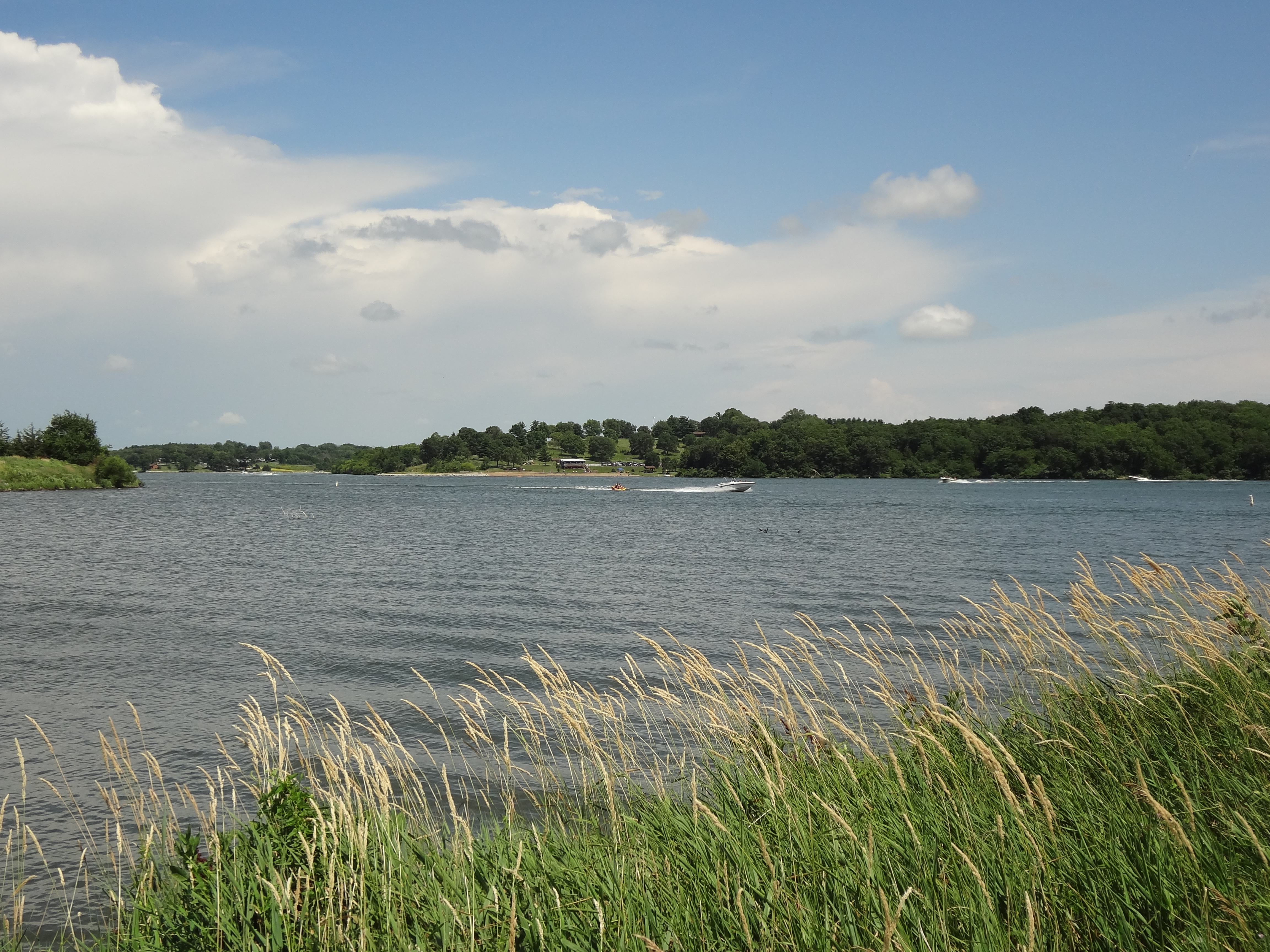 View of boats on the main ski zone of Lake Icaria in Iowa. In the background, one of the campgrounds can be seen to the left with the beach in the center.